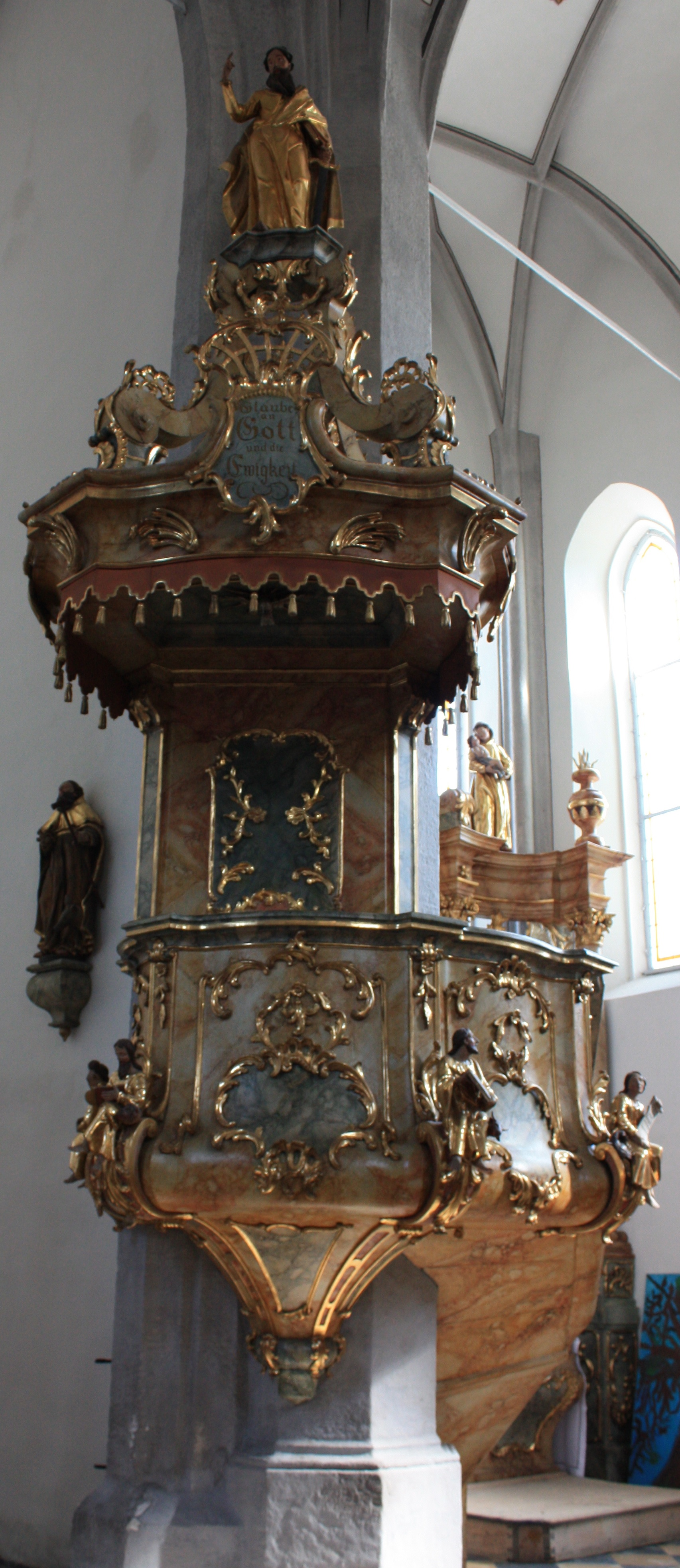 Parish church Assumption of Mary - Pulpit Locality:Kirchgasse Community:Gmünd